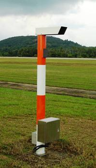 Aviation Transmissometer